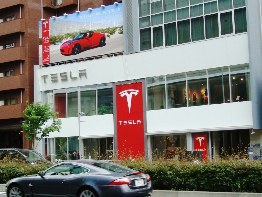 Tesla Morors' Tokyo Aoyama Showroom, Aoyama, Tokyo